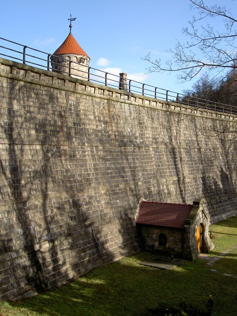 Liberec (Harcov) dam, Czech republic.